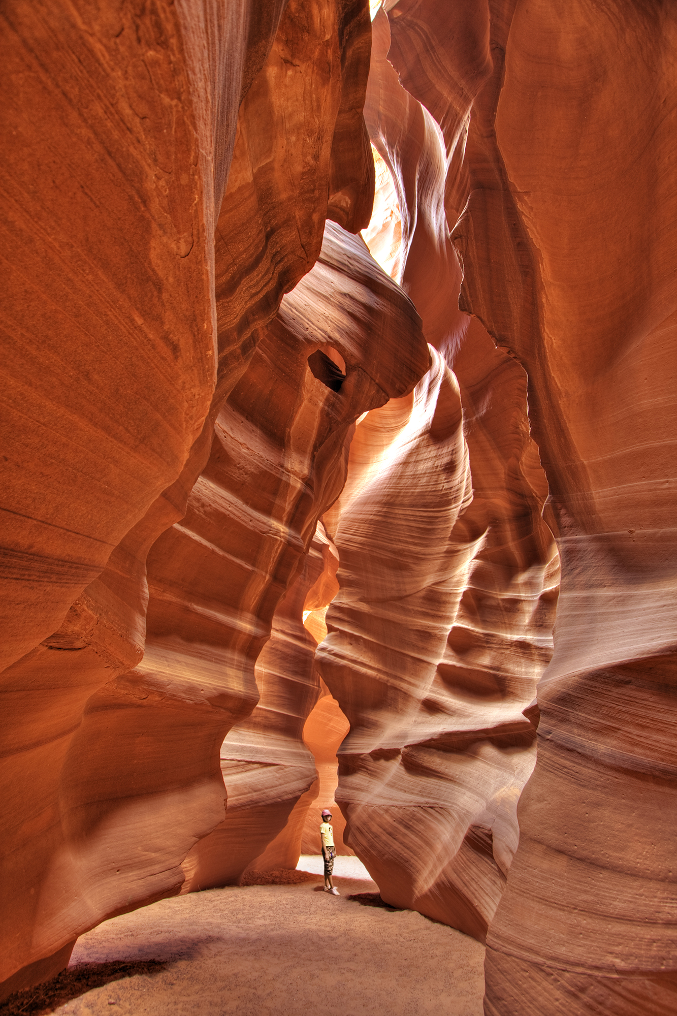 HDR image of Upper Antelope Canyon, Page, Arizona. Antelope Canyon is a slot canyon in the American Southwest that was formed by erosion of Navajo Sandstone, primarily due to flash flooding and secondarily due to other Sub-aerial processes. HDR image from 4 different exposures.